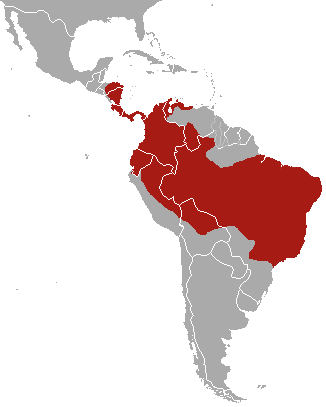 Bolivian Three-toed Sloth (Bradypus variegatus) range